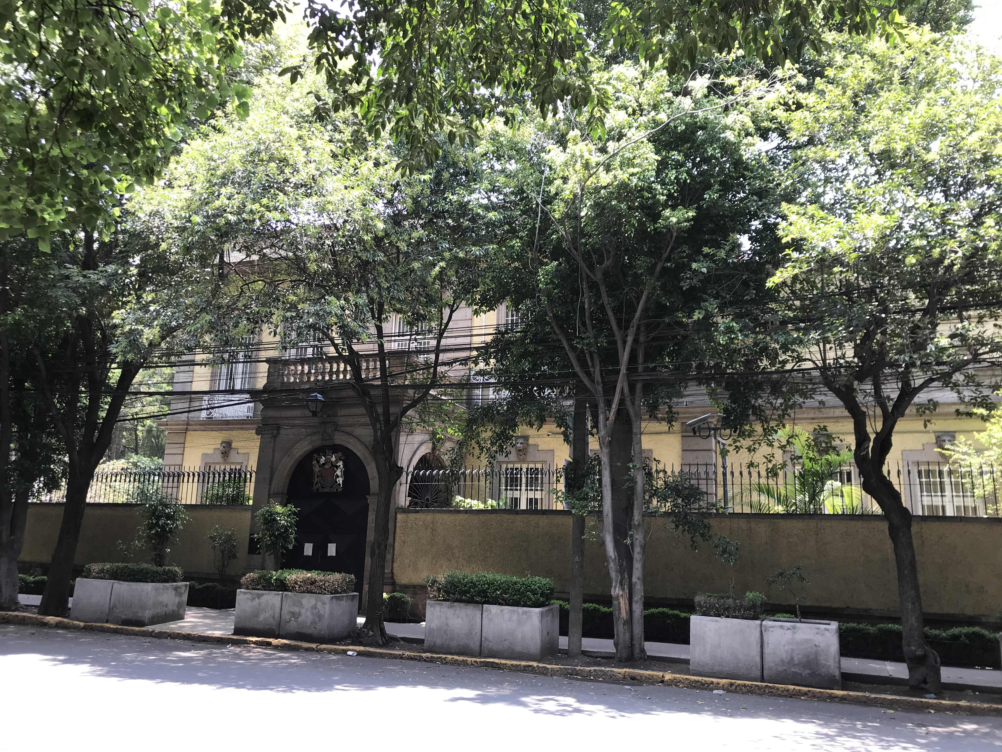 Embassy of the United Kingdom in Mexico City